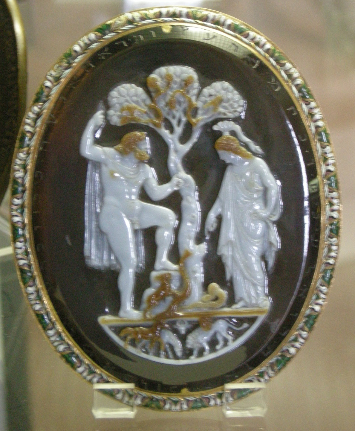 Illustration of Greek myth of Poseidon and Athena contending to be the founder of Athens